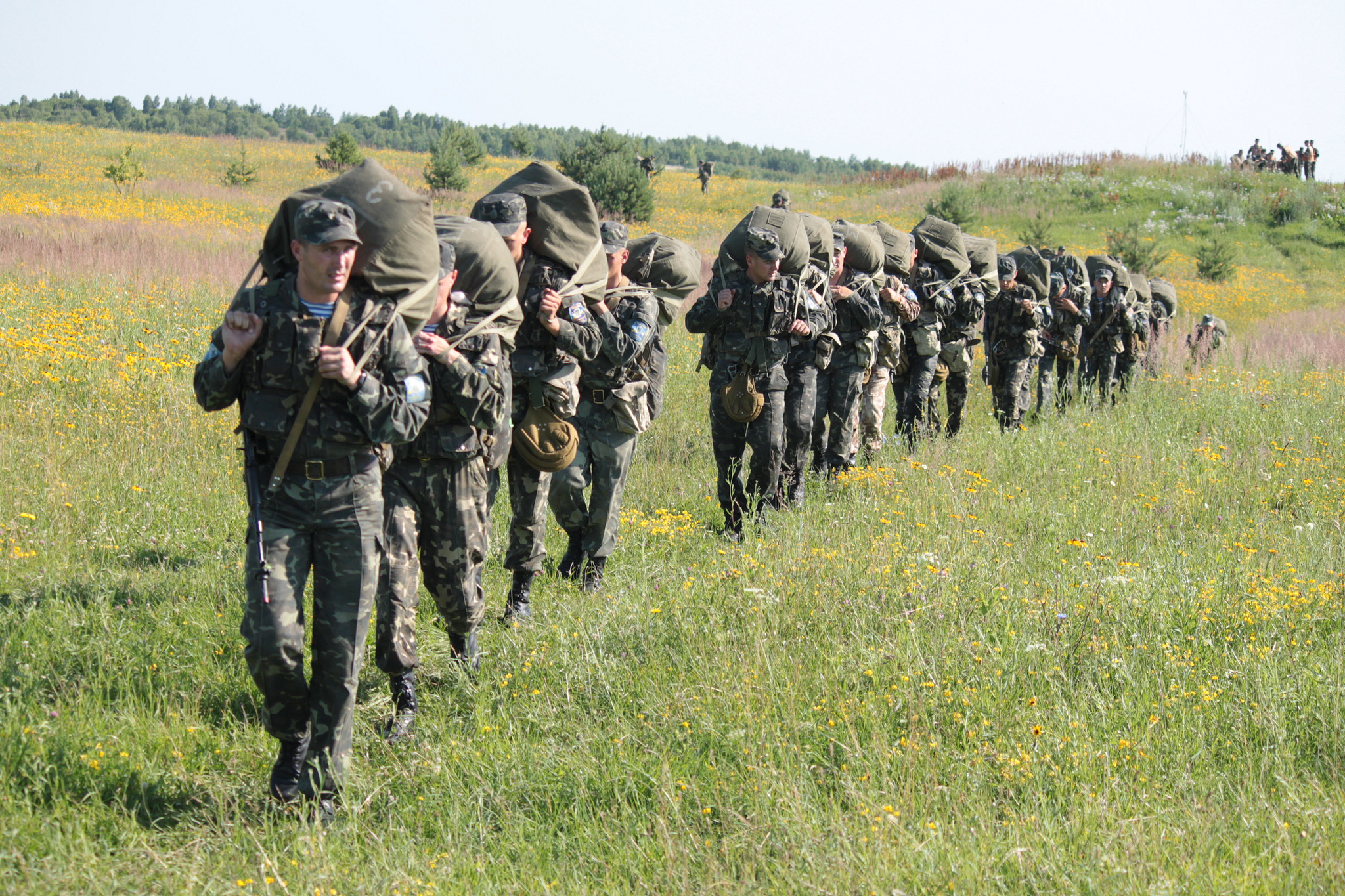 Ukrainian Ground Forces paratroopers assigned to the 95th Separate Airborne Brigade move off a drop zone in Yavoriv, Ukraine, July 9, 2013, after conducting an airborne operation as part of Rapid Trident 2013. Rapid Trident is an annual joint combined exercise involving the U.S. and Partnership for Peace member nations. Missions alternate in odd and even years. In odd years Rapid Trident is a field exercise, while in even years the exercise incorporates a command post exercise.